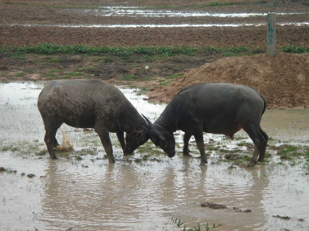 Water buffalo fighting in Cambodia